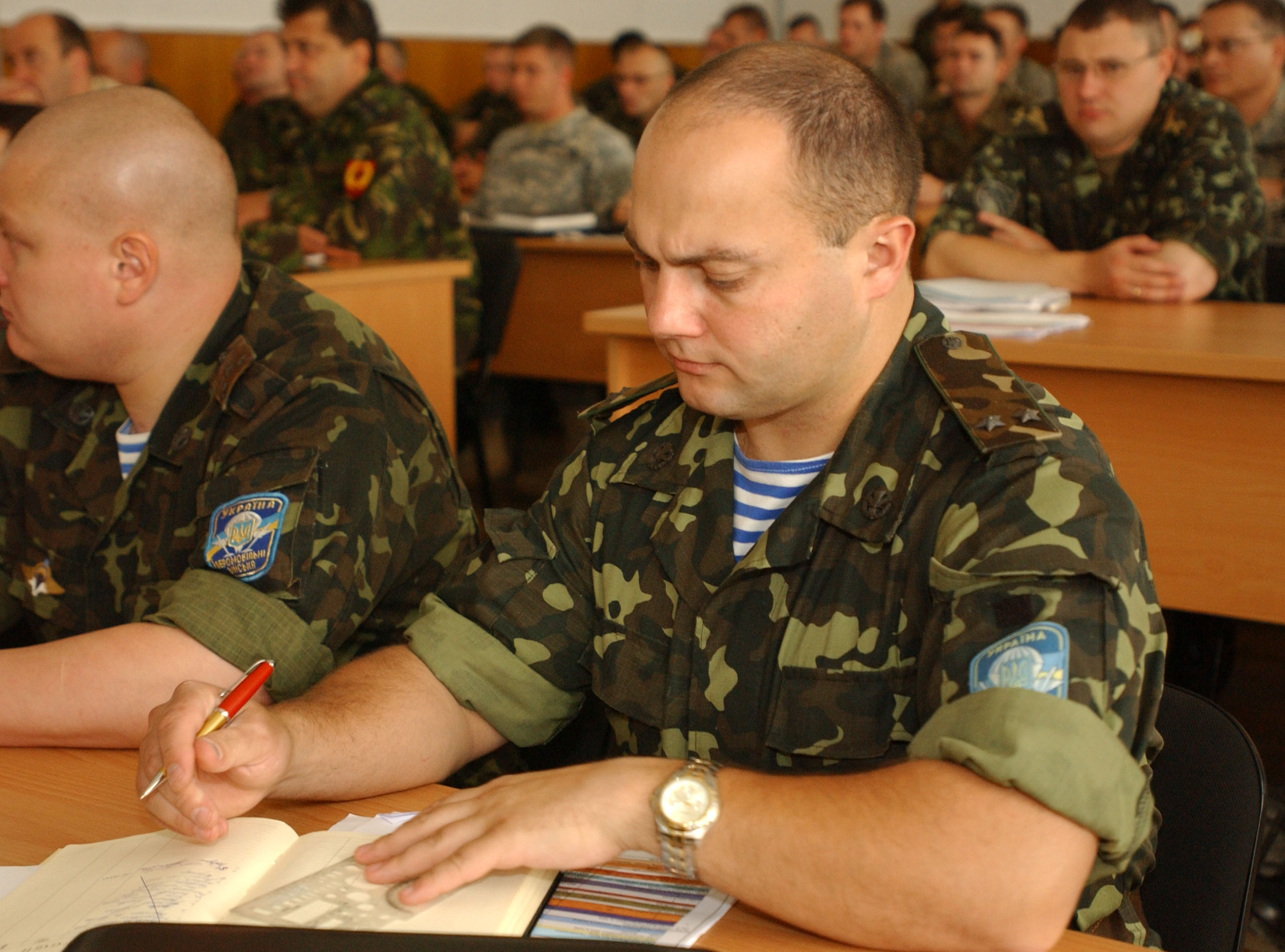 Ukrainian and Californian soldiers receive a briefing together at Rapid Trident 2007 in Kiev, Ukraine.